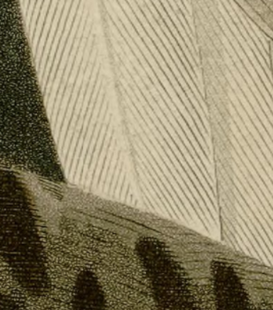 This image is a detailed and enlarged image of Audubons engraving, Snowy Oil. The original piece is life-sized. This image shows the details of the etching of the owl's feathers. Title Snowy Owl. Plate CXXI (121) Creator Audubon, John James, 1785-1851. Contributor Havell, Robert, 1793-1878. Date 1831-1834 Identifier aud0121 Description Snowy Owl, Strix nyctea. Linn, Male, I. Female, 2. J WHATMAN TURKEY MILL 1833 Extent 37.5 x 25.25 Place of Publication London Type still image Subject Birds--North America Birds--Pictorial works Source The Birds of America, Vols. I-IV, 1827-1838 Special Collections, University Library System, University of Pittsburgh. Collection Audubon's Birds of America Darlington Digital Library Contributor University of Pittsburgh Rights Information